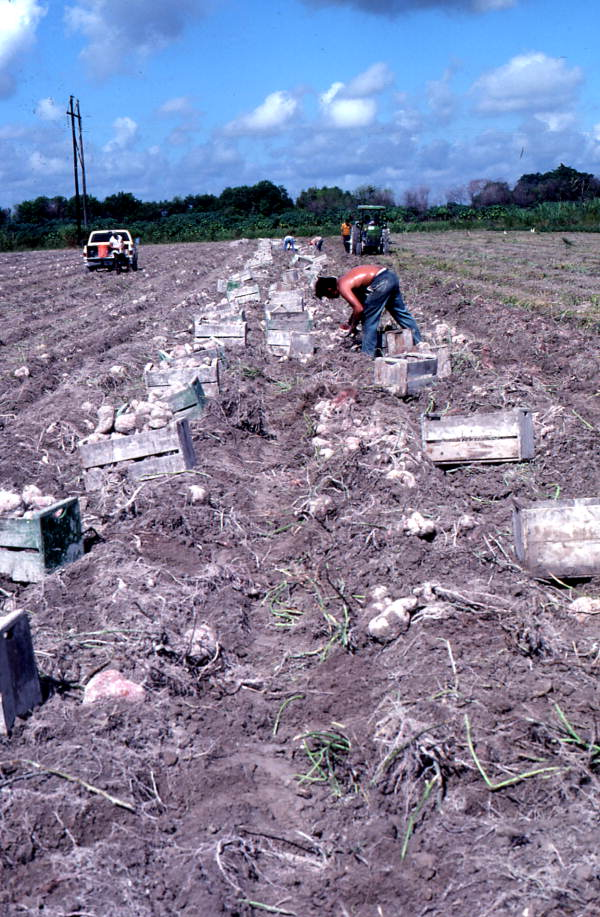 Laborer harvesting sweet potato crop - Homestead, Florida